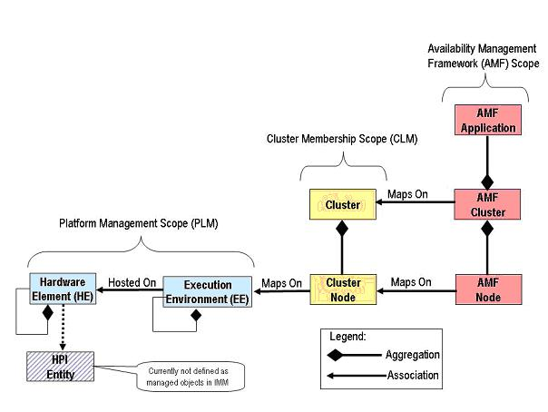 Mapping between PML, CLM and AMF entitites